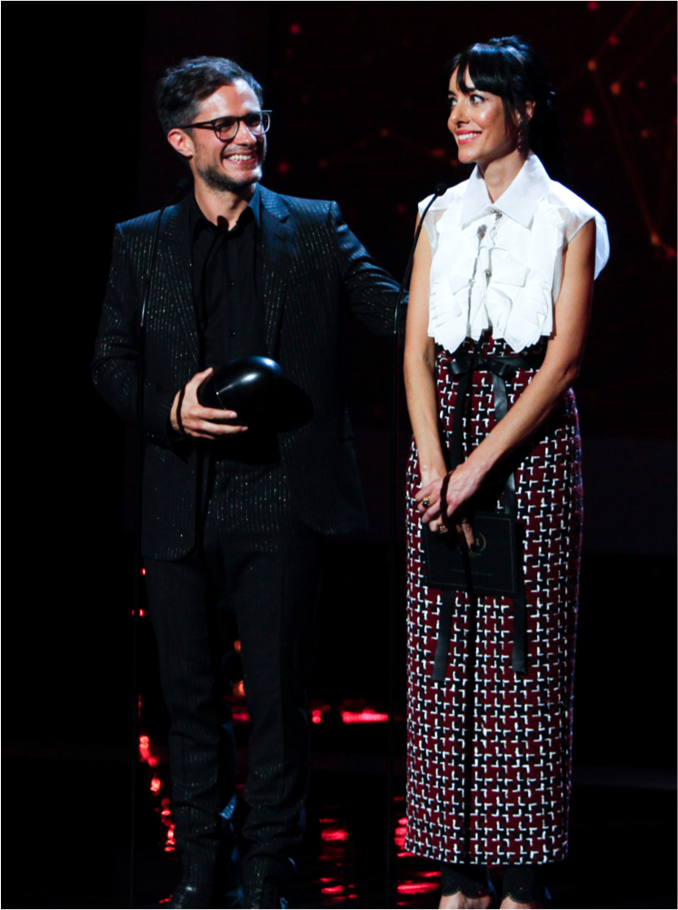 Se realizó la segunda entrega de los Fénix, Premio Iberoamericanos de Cine, en el Teatro de la Ciudad Esperanza Iris, Aquí los los presentadores y cantantes que participaron arriba del escenario.